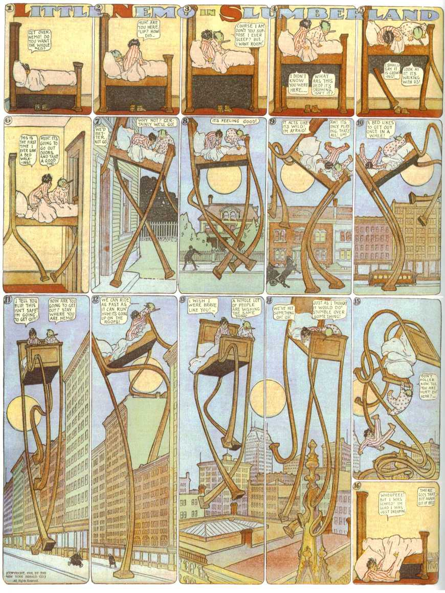 Little Nemo in Slumberland comic strip episode from 26 July 1908. Nemo dreams that his bed walks.